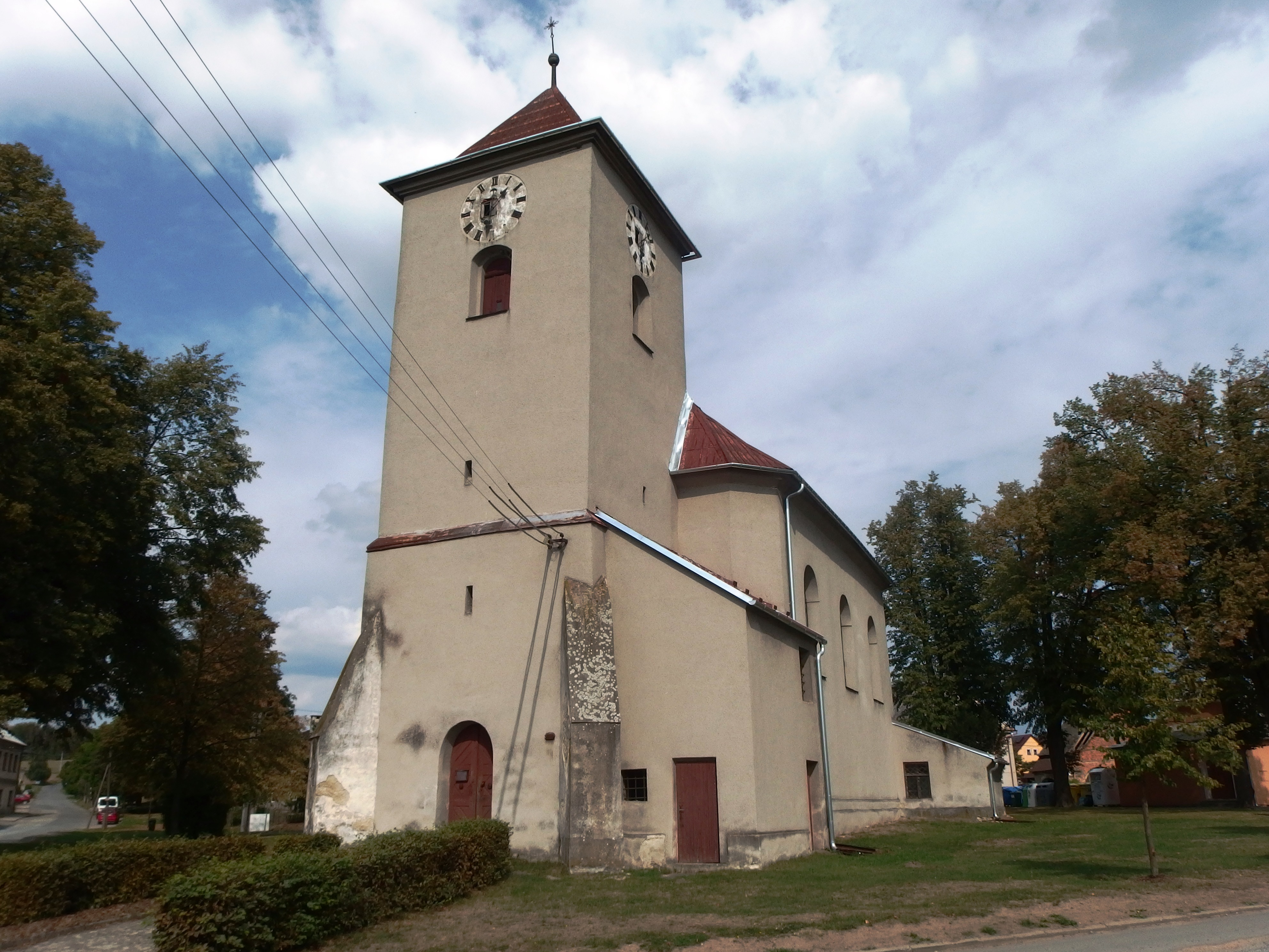 Domašov u Šternberka, Olomouc District, Czech Republic.